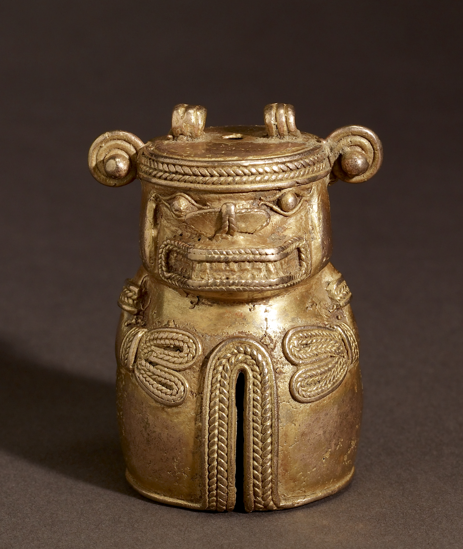 The earliest evidence of goldworking in the Western Hemisphere dates to around 2000 BC, when gold was first hammered into thin foil sheets in ancient Peru. But it was the goldsmiths of Colombia who had access to the largest veins of gold ore, which they extracted by "placer mining" (panning) and by building simple, vertical shaft mines. Gold was melted and worked in a variety of techniques, including hammering, often around a wooden form, and lost-wax casting (in which a wax model of an object is made and encased in clay, which is fired, causing the wax to melt and run out through a hole; molten gold is then poured into the hole and hardens, and the resulting figure is revealed when the clay mold is broken apart). Much ancient American gold is naturally alloyed, or mixed, with copper, with percentages of copper rising to as high as 70 percent. This material, called "tumbaga," often has a reddish color. Ancient Colombian metalworkers developed "depletion gilding" techniques, in which the copper was removed from the gold using organic acids. Tairona gold is characterized by almost flamboyant decoration: spiraling strands of gold braidwork sprout from the heads of standing rulers, who are often adorned with the same pectorals and lip plugs actual chieftains wore. The knowledge of goldworking spread from the central and northern Andes into Central America, and gradually a blend of techniques and imagery developed into what is known as the "International Style." Very little of this material survived the Spanish conquest.